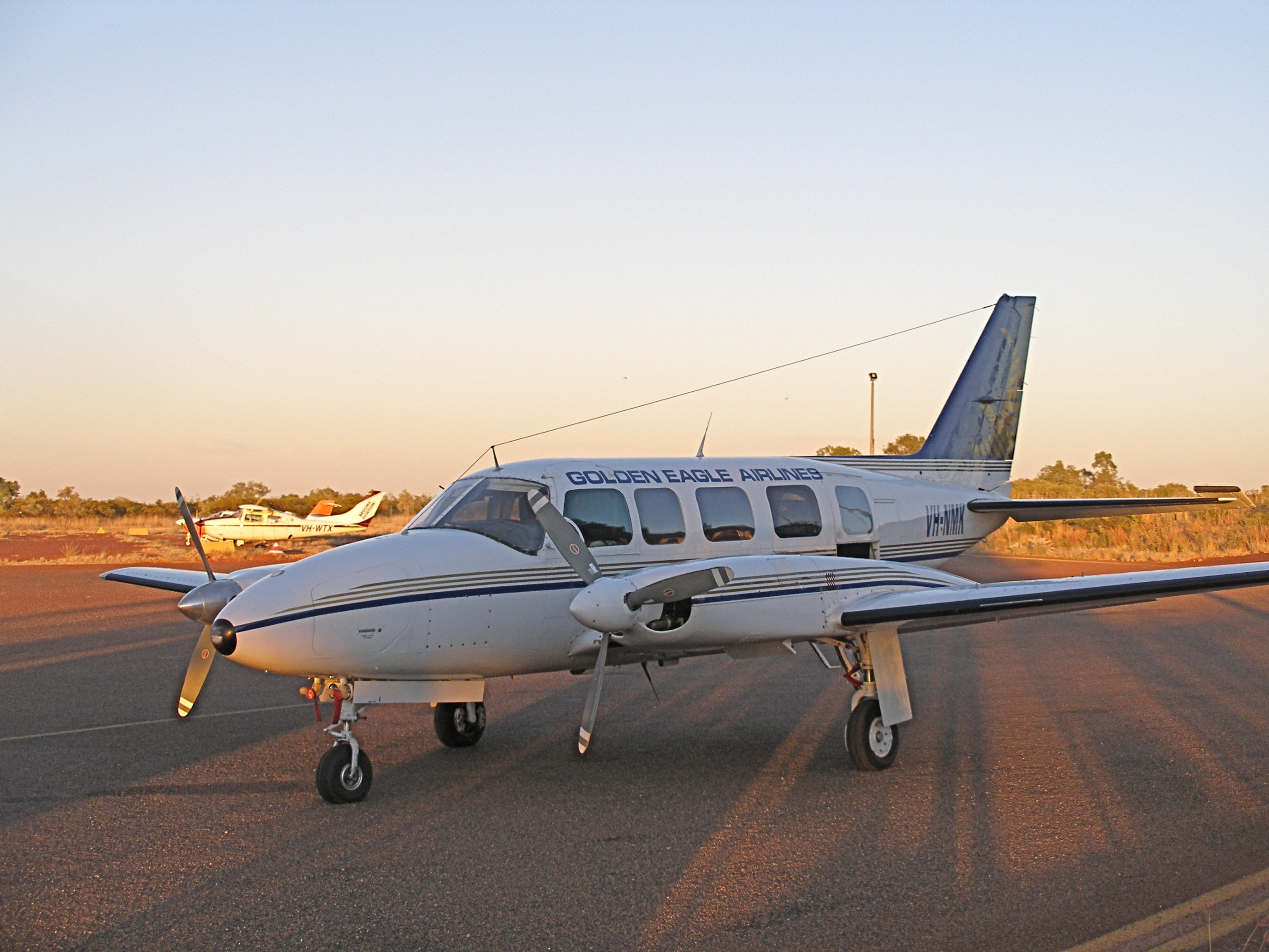 Golden Eagle Airlines Piper Chieftain at Halls Creek Airport Western Australia May 2008